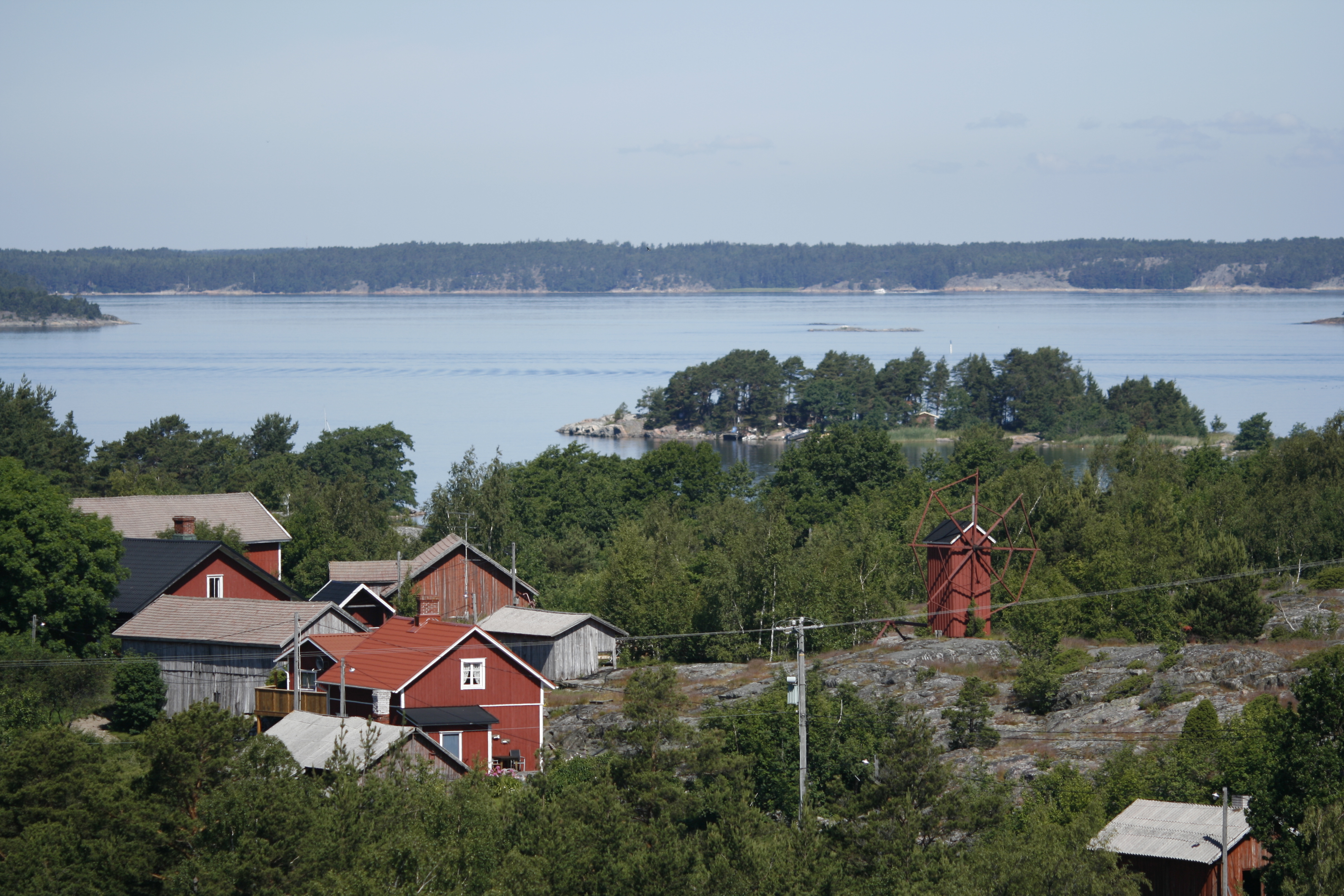 View over the island of Stenskär in Nagu, Finland.